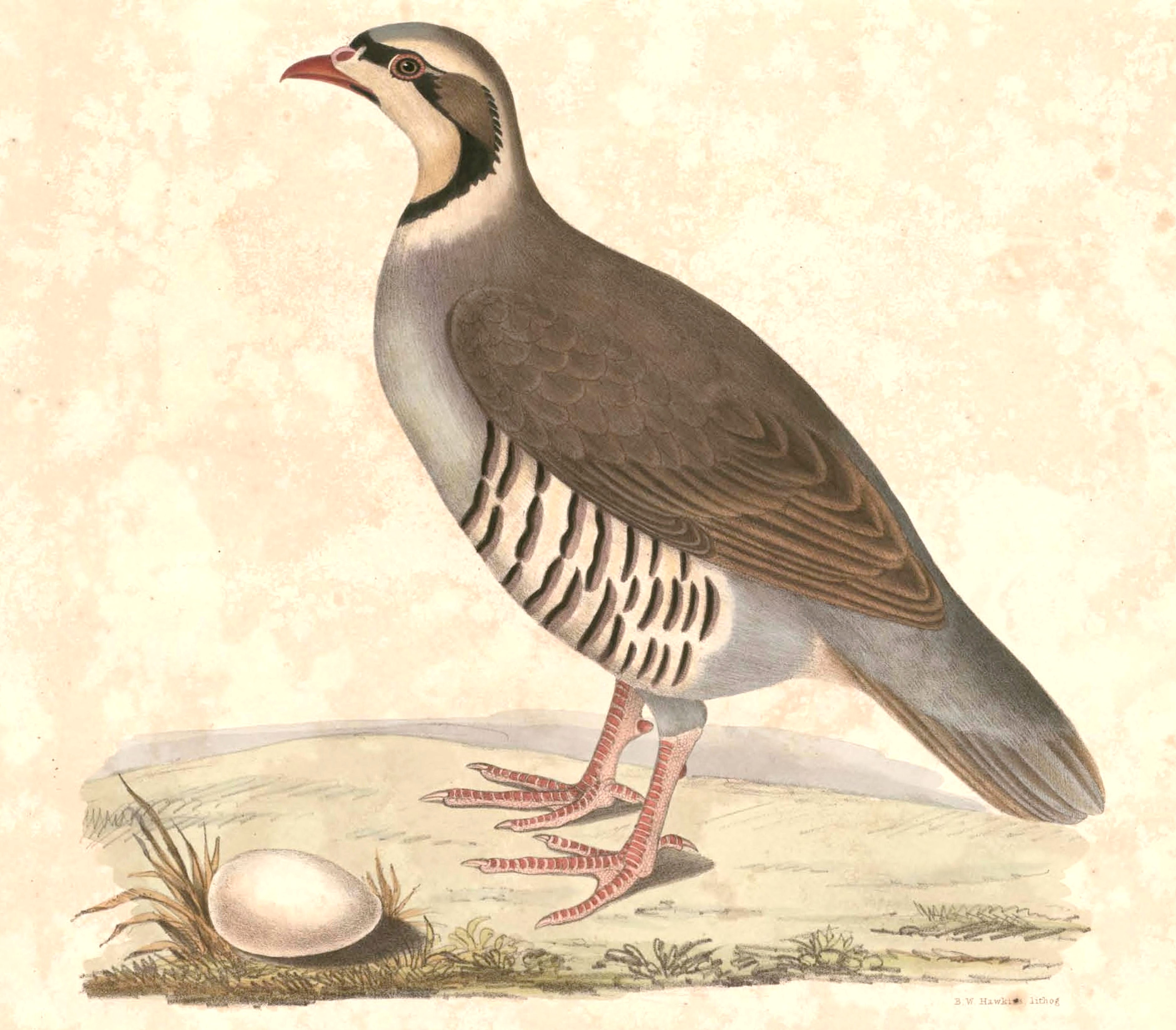 « Perdix chukar » = Alectoris chukar (Chukar Partridge) - adult and egg